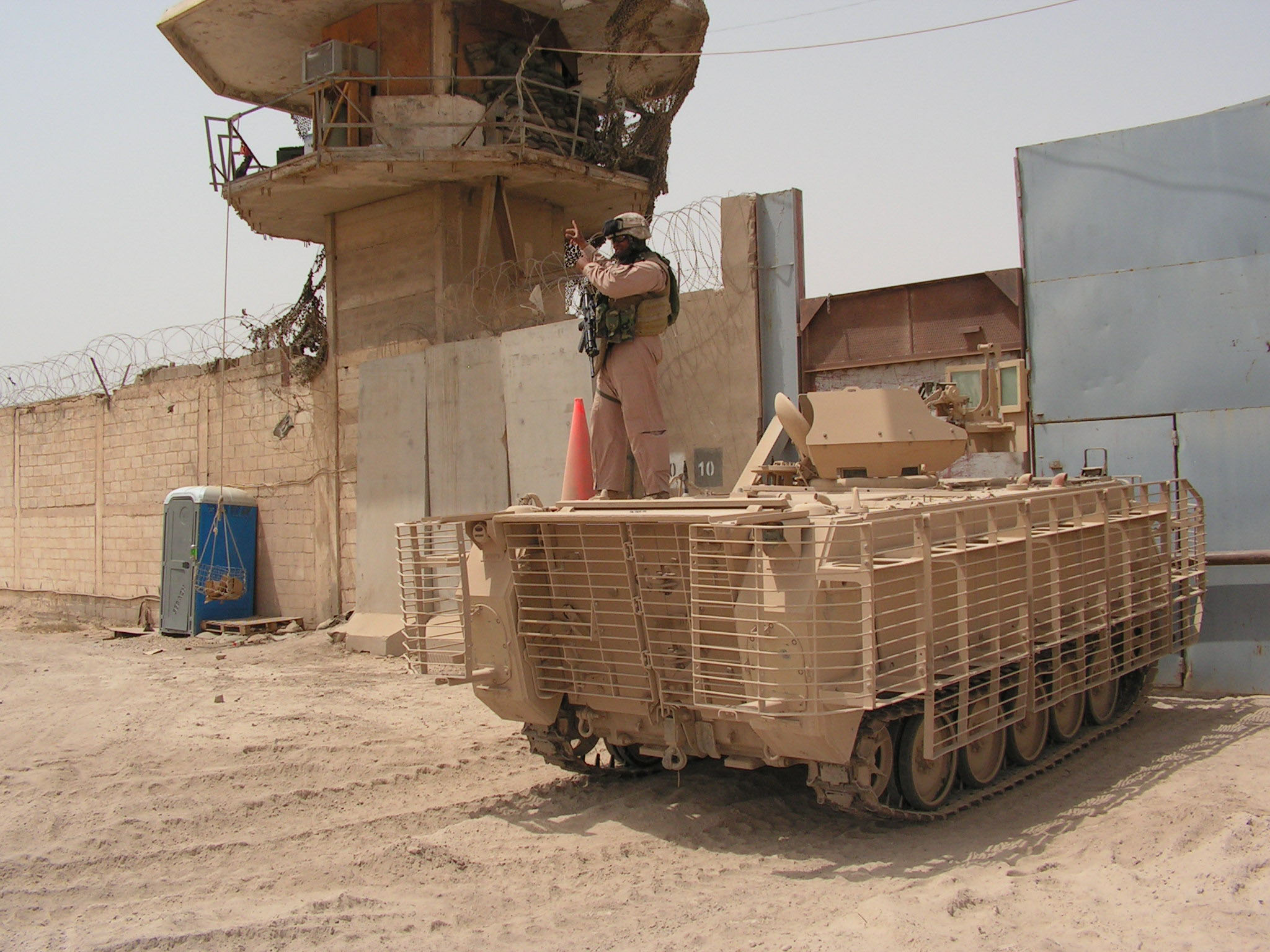 Gunnery Sgt. Kevin Anderson, of Alexandria, La., instructs Iraqi soldiers on the meaning of the 11 General Orders for Sentries, which is being used as a baseline for the security training for the Iraqi Army's Abu Ghraib Security Force. Marines from 2nd Battalion, 8th Marine Regiment are assisting the Iraqi 4th Brigade, 1st Iraqi Division to take up a permanent presence at the former prison. The Iraqi soldiers will use the complex as a forward operating base.